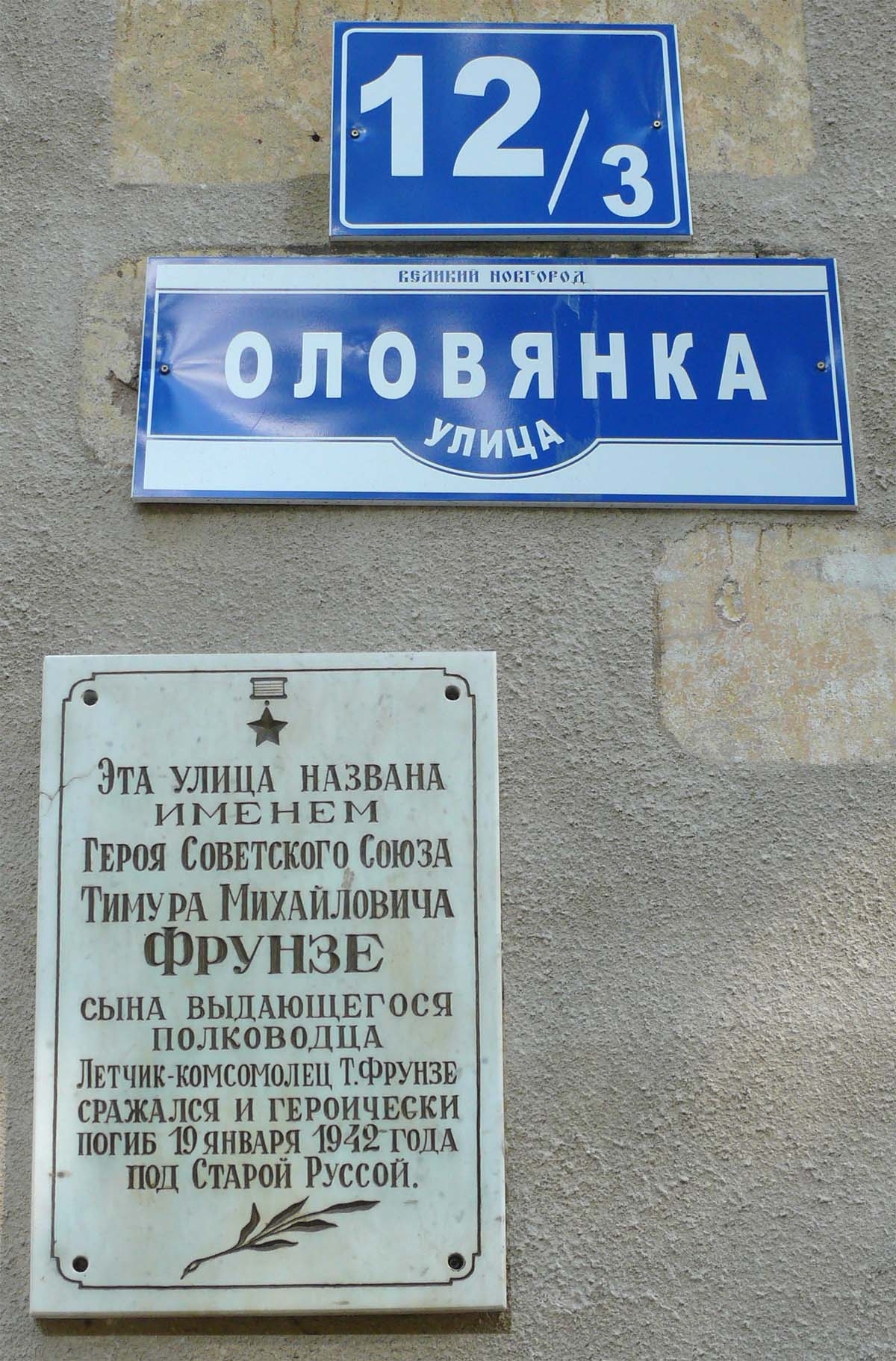 Plaques on a house wall in Olovianka street, Veliky Novgorod, Russia